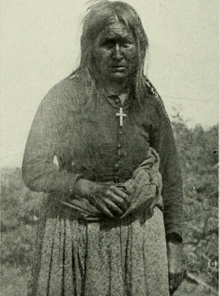 Title: The American Museum journal Year: c1900-(1918) (c190s) Authors: American Museum of Natural History Subjects: Natural history Publisher: New York : American Museum of Natural History Text Appearing Before Image: ' Text Appearing After Image: HEADMAN OLD CATHARINE FuUblooded Chipewyan. Ft. McMurray, the objective point of the scows, on the 28th of May. Here the freight was unloaded and piled on the bank to await the arrival of the Hudson's Bay Company's steamer, the "Grahame," which plies irregularly between Ft. McMurray and Smith's Landing. Captain Kelly then turned back, leaving me and two half-breed watchmen with three days' supply of provisions — which it turned out we had to hus- band with care, since the steamer did not appear for eight days. The remainder of the trip presented no unusual features, and on the Sth of